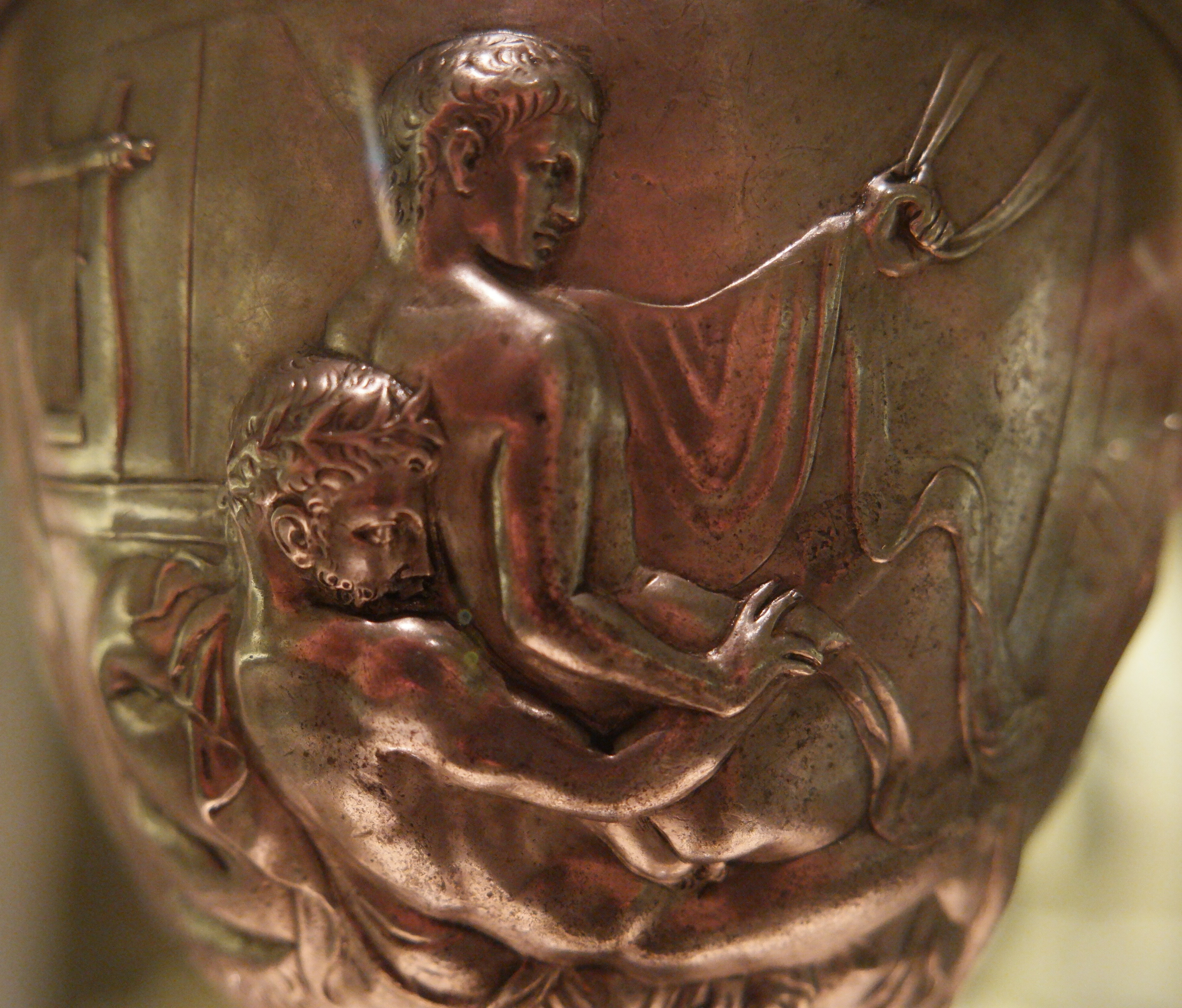 See Warren Cup. British Museum, GR 1999,0426.1